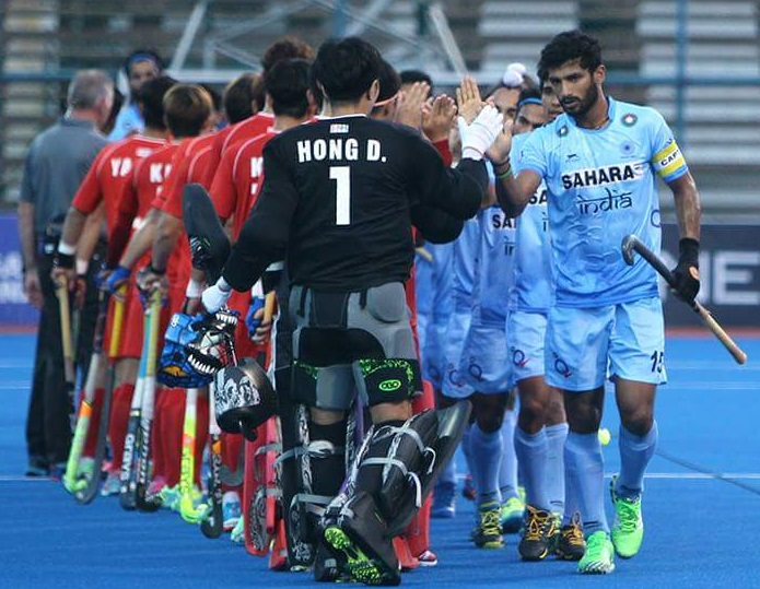 SK Captaining in the Semi-final of ACT2016